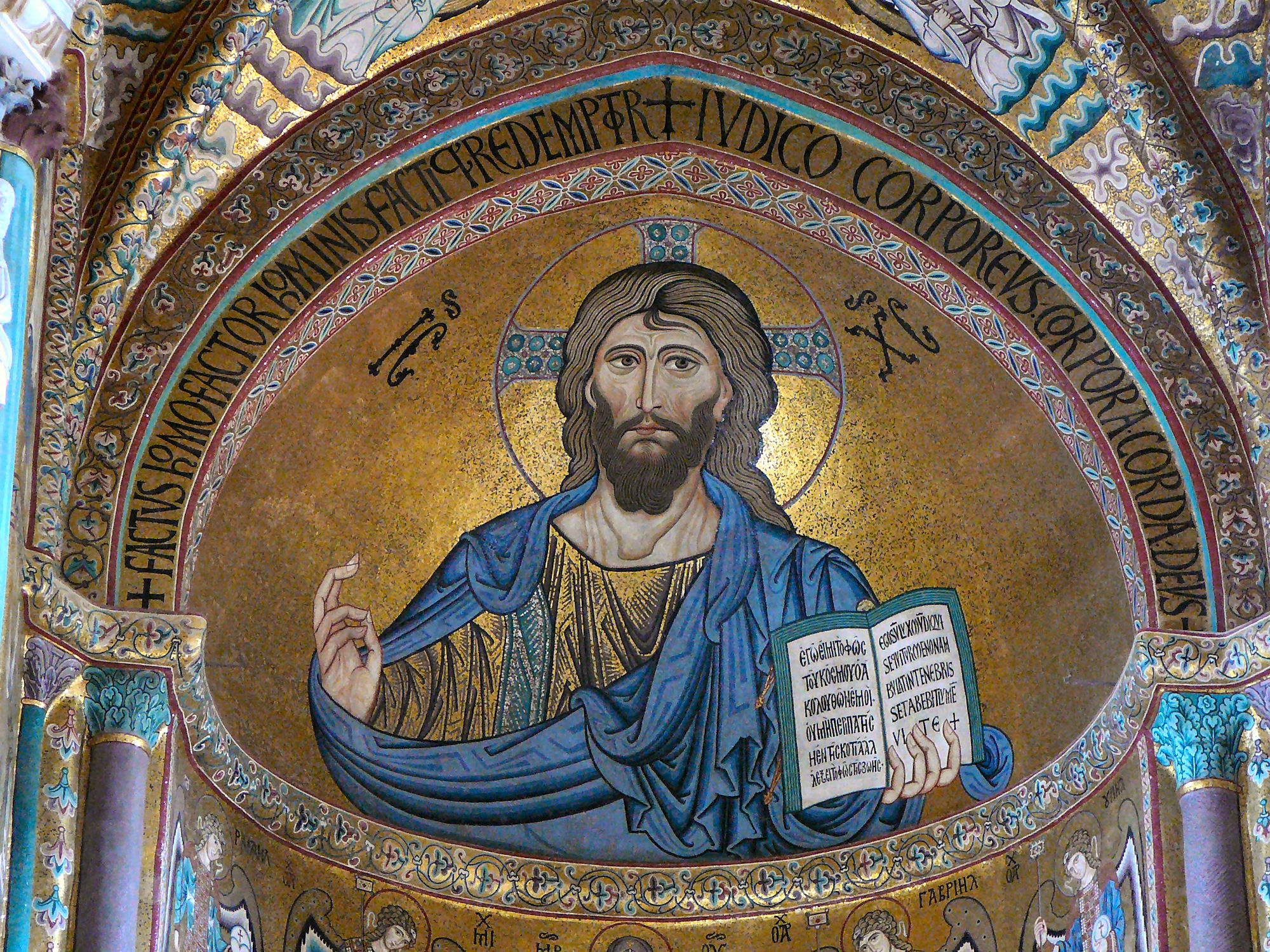 Christ Pantokrator in the apse of the Cathedral of Cefalù, Sicily, Italy. Mosaic in Byzantine style.